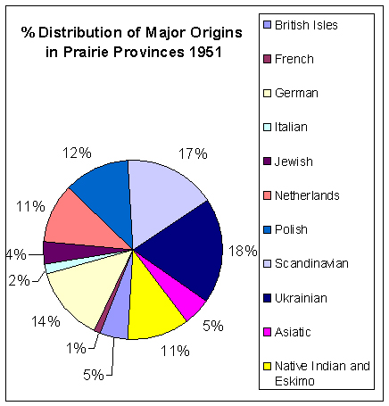 Percentage Distibution of the Major Origins by Regions, 1951 Own work: Pie Chart made from Table on Page 23 Canada 1956 The Official Handbook of Present Conditions and Recent Progress Prepared in the Canada Year Book Section Information Services Division Dominion Bureau of Statistics Ottawa, The Right Honourable C.D. Howe Minister of Trade and Commerce.